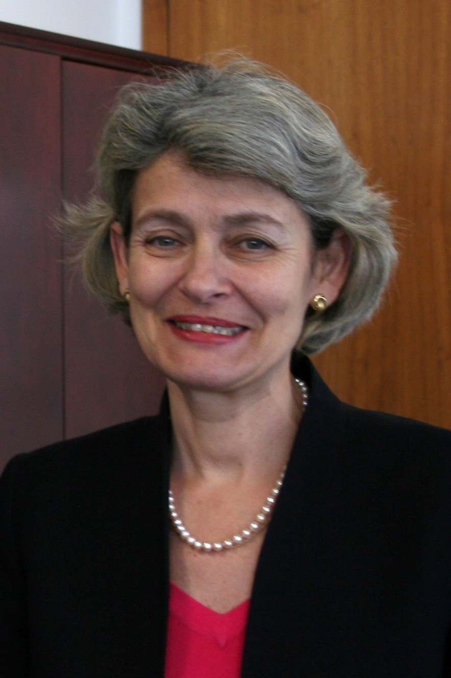 Irina Bokova, Bulgarian politician